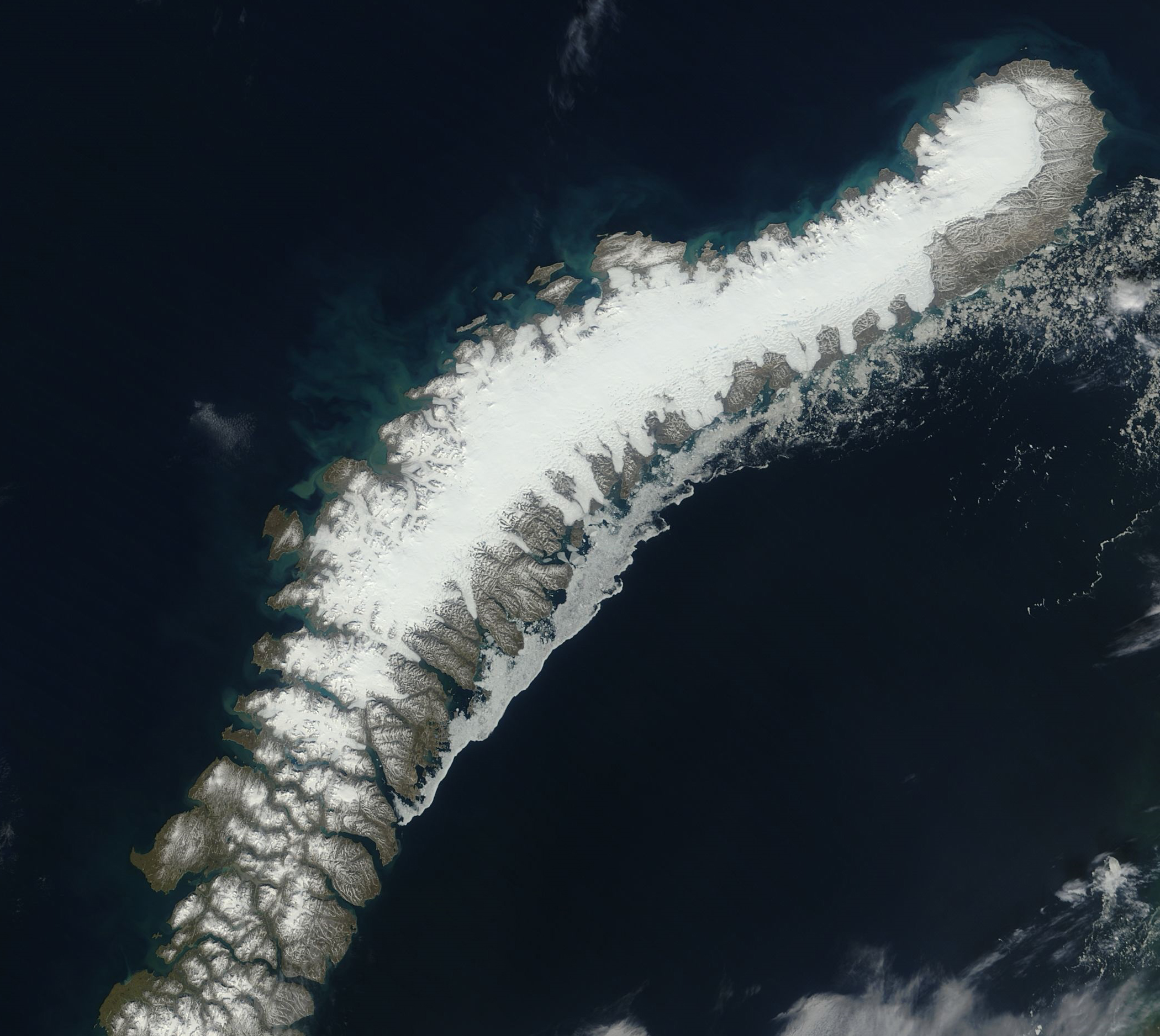 North Island of Novaya Zemlya